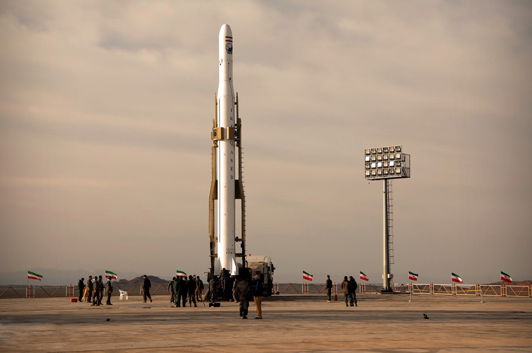 First launch of the Qased SLV.